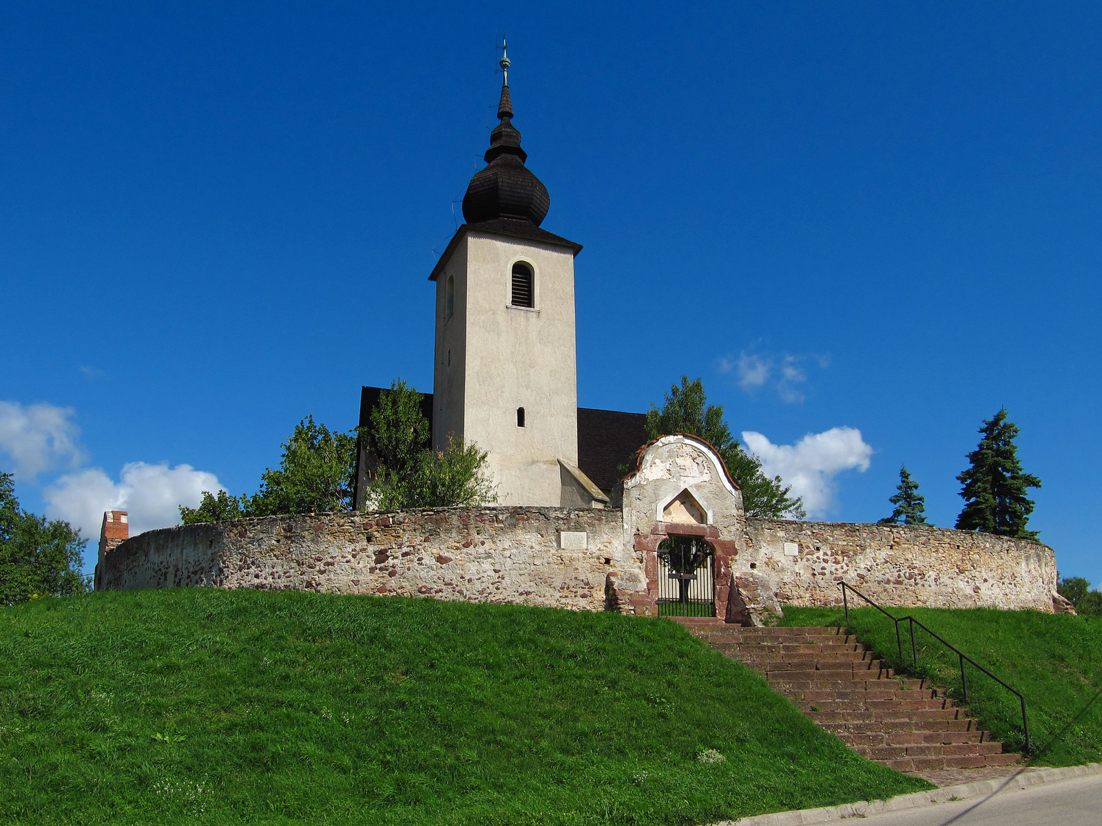 Reformed churches in Vörösberény district of Balatonalmádi, Veszprém County. Listed Id 9658. A Baroque church with Romanesque & Gothic elements. Object location47° 02′ 48.12″ N, 18° 00′ 30″ E This is a photo of a monument in Hungary. Identifier: 9658